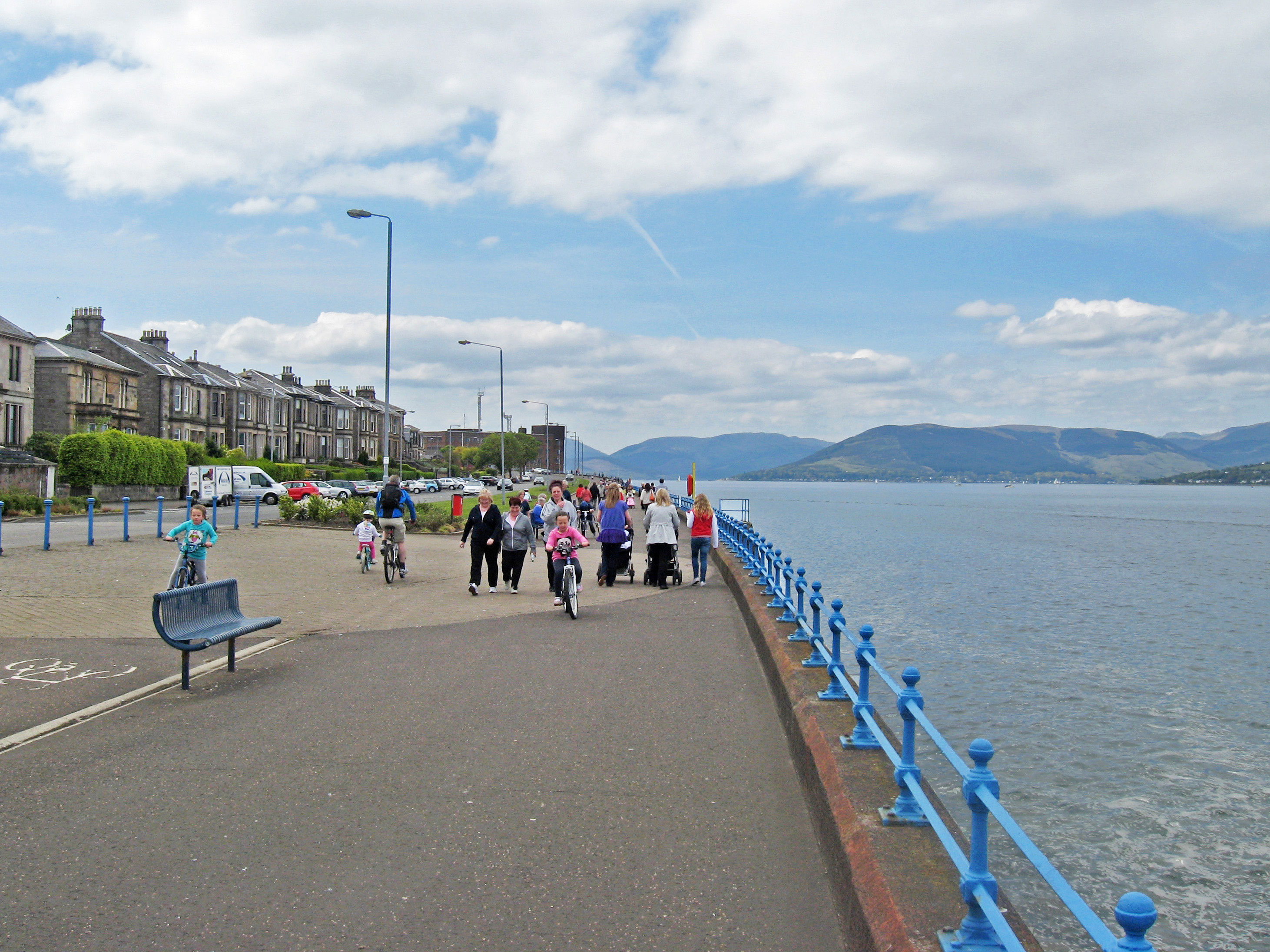 Greenock Esplanade, looking west.